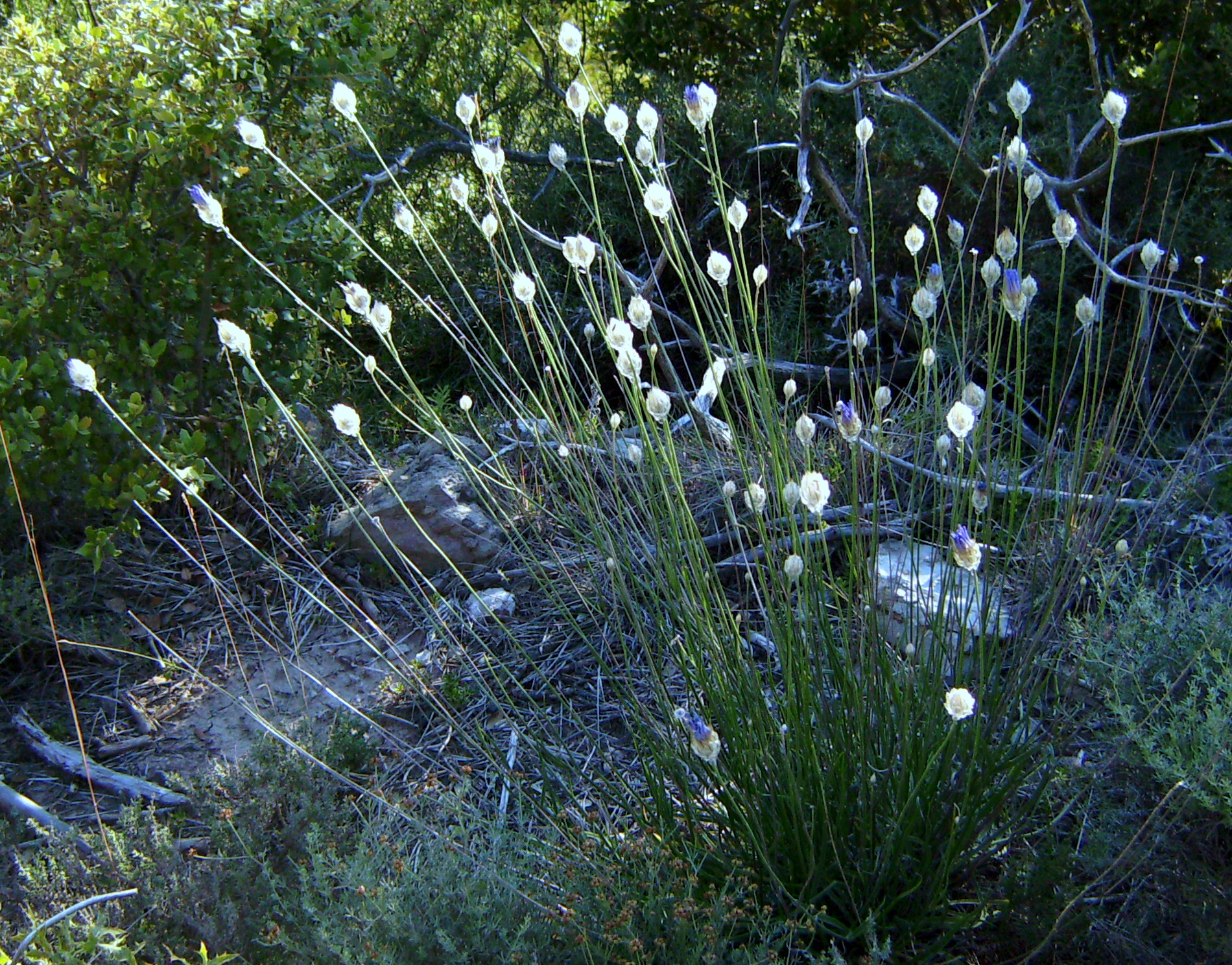 Catananche caerulea plant in the wild, Castelltallat, Catalonia